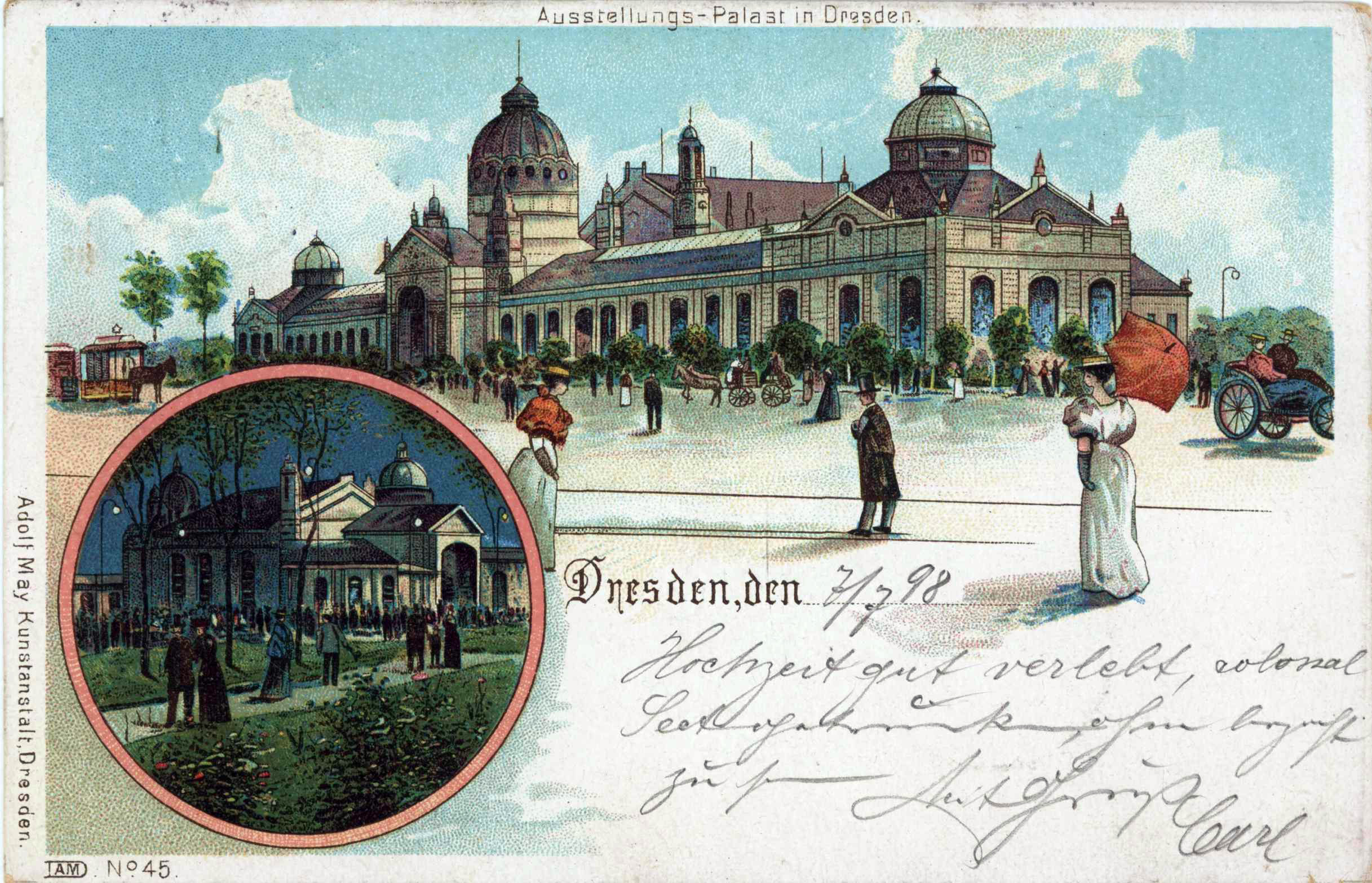 Exhibition Palace in Dresden (app. 1896), Adolf May Kunstanstalt Dresden